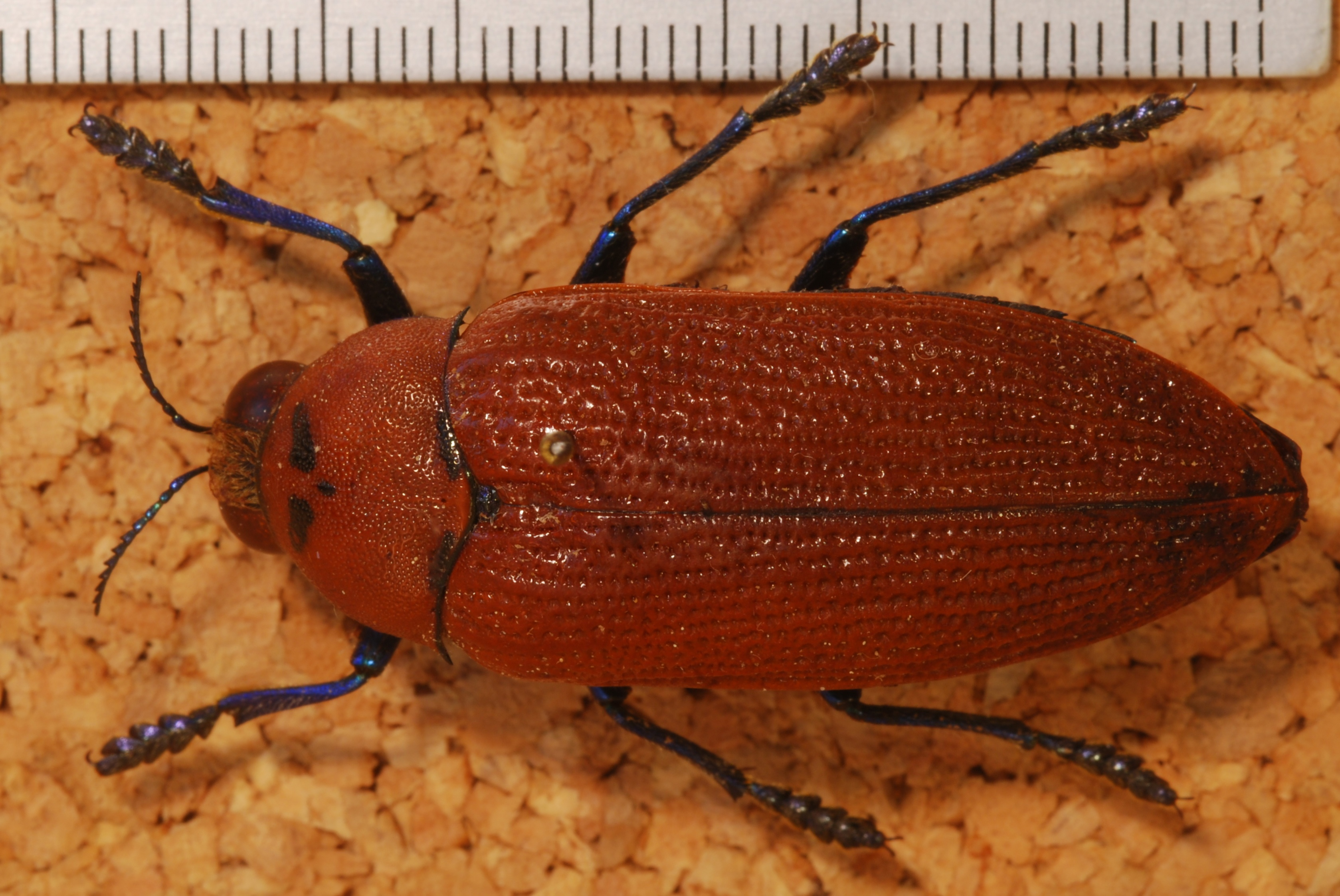 Enneaba, West Australia, AUSTRALIA